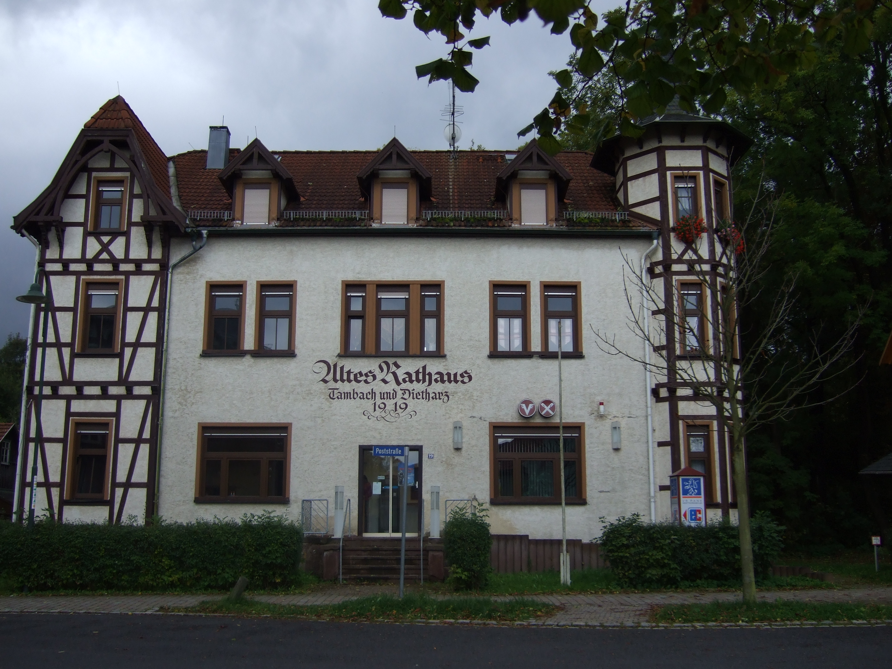 Old townhall in Tambach-Dietharz, Germany, 2007.